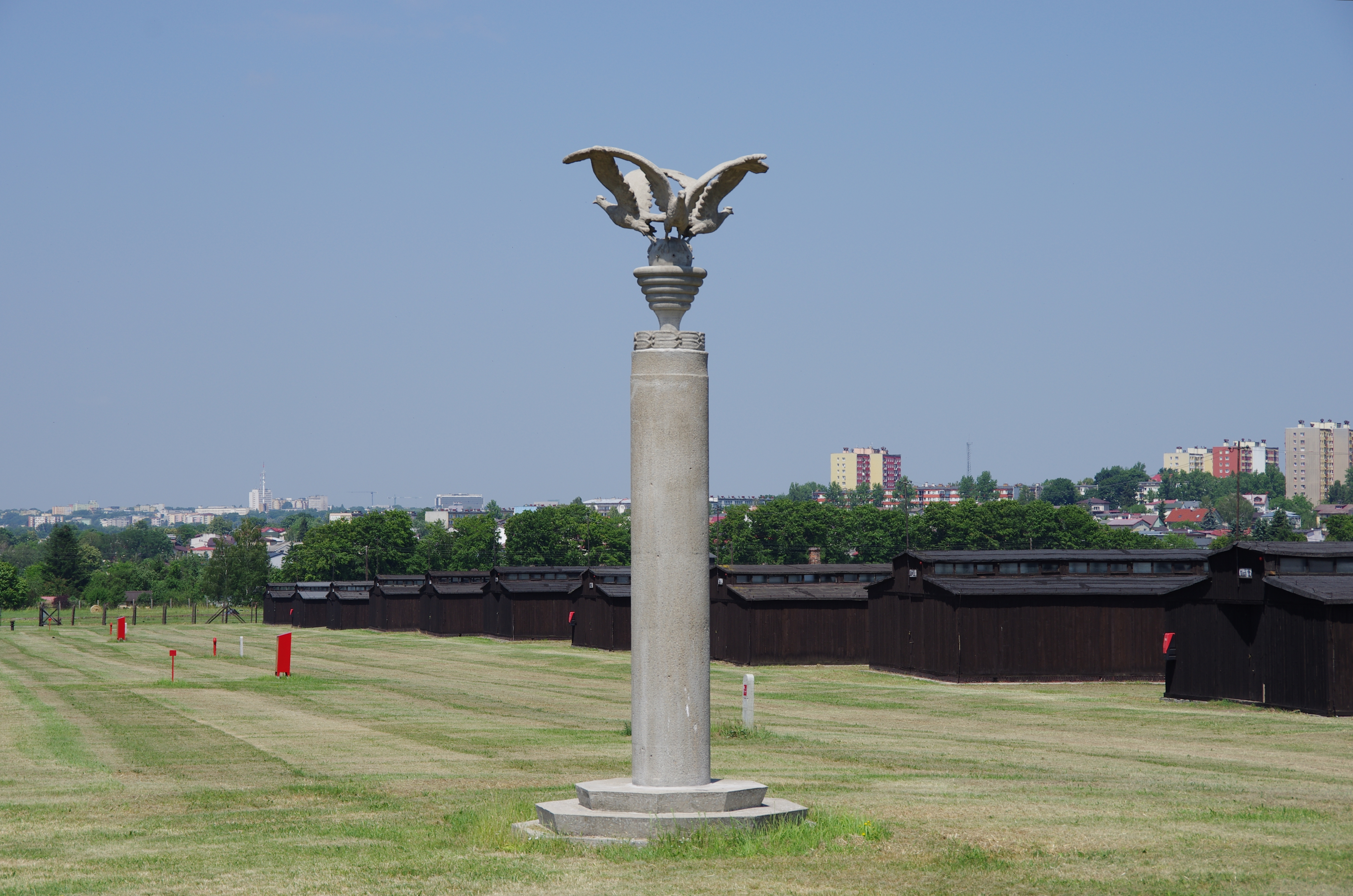 Mausoleum Three Eagles or Column Three Eagles, created by Maria Albin Boniecki